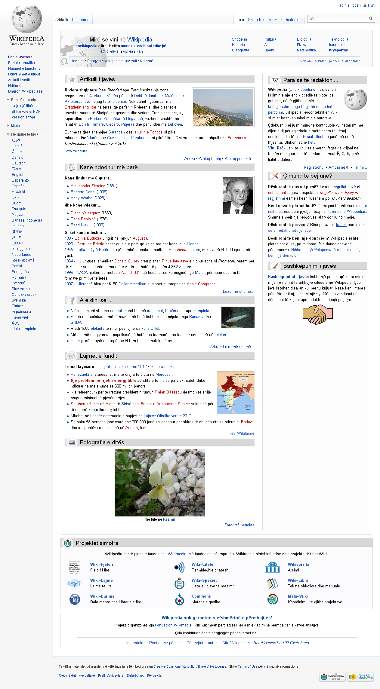 Screenshot of Main page of Albanian Wikipedia